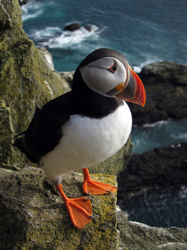 Puffin (Fratercula arctica)